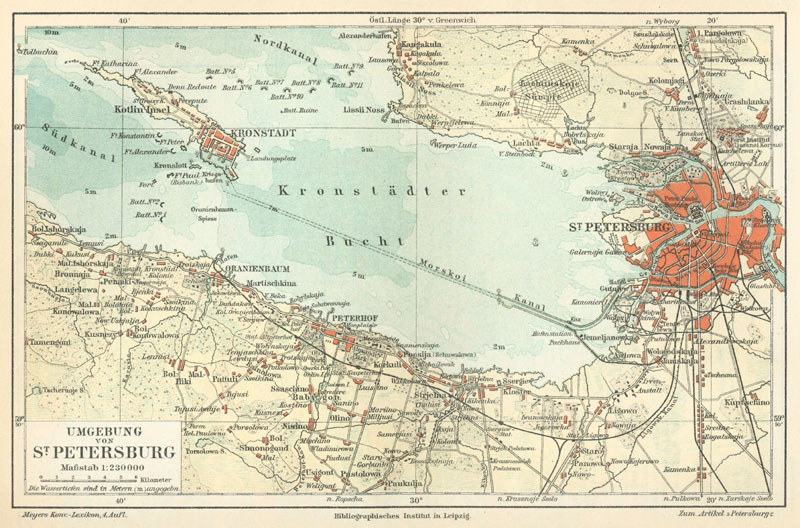 1888 German map of Saint Petersburg